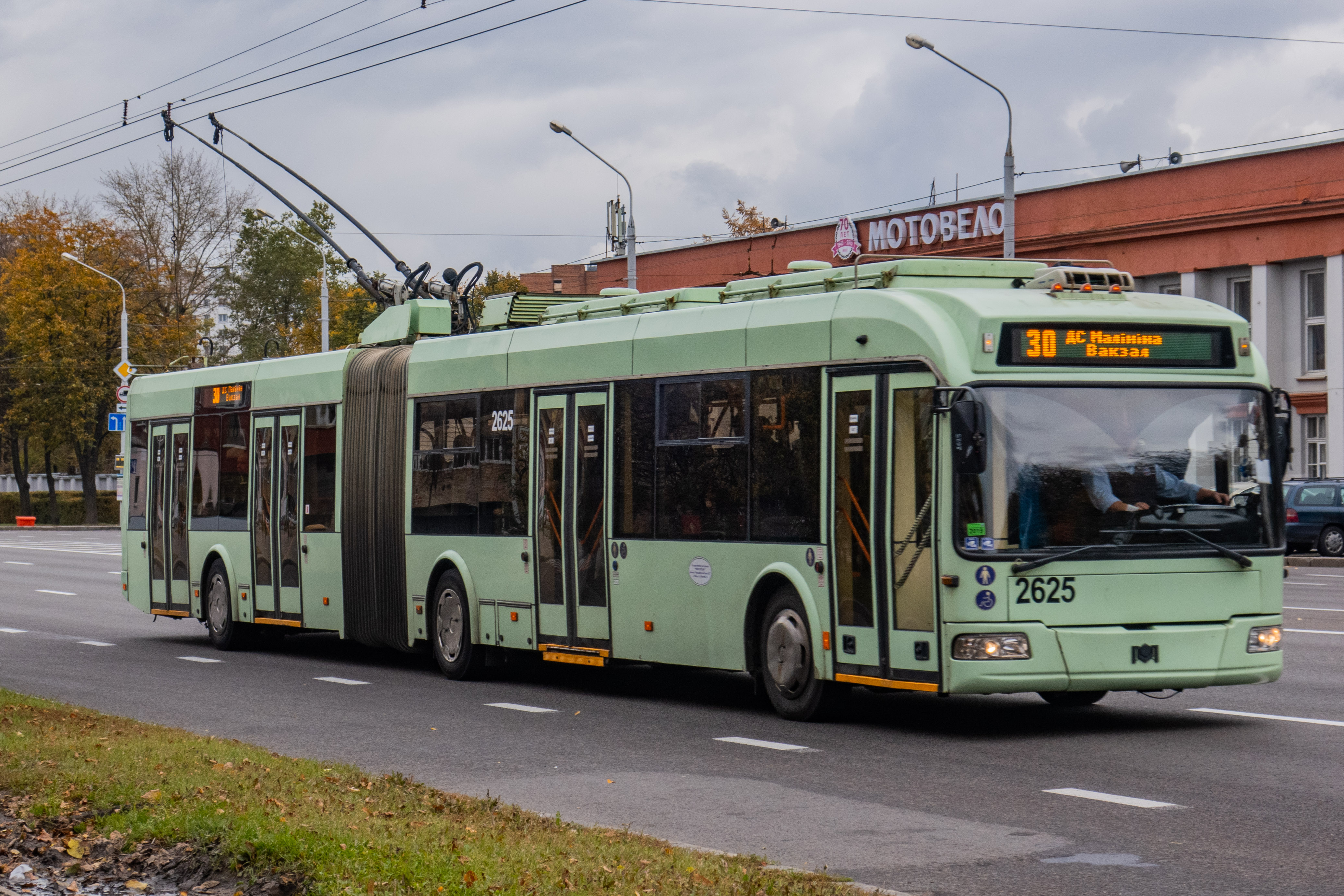 AKSM-333 trolleybus. Minsk, Belarus